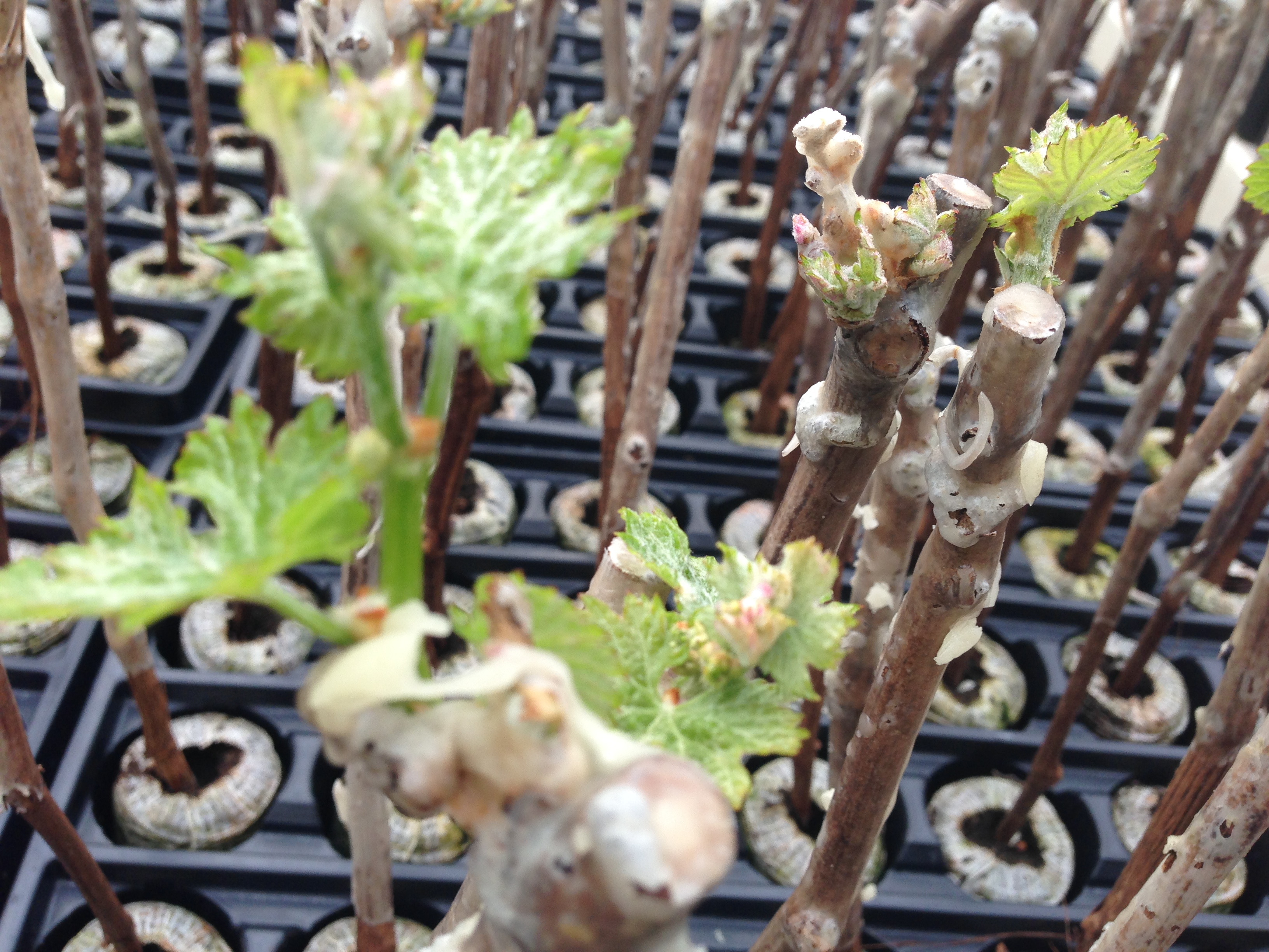 Young grafted vine shoots.